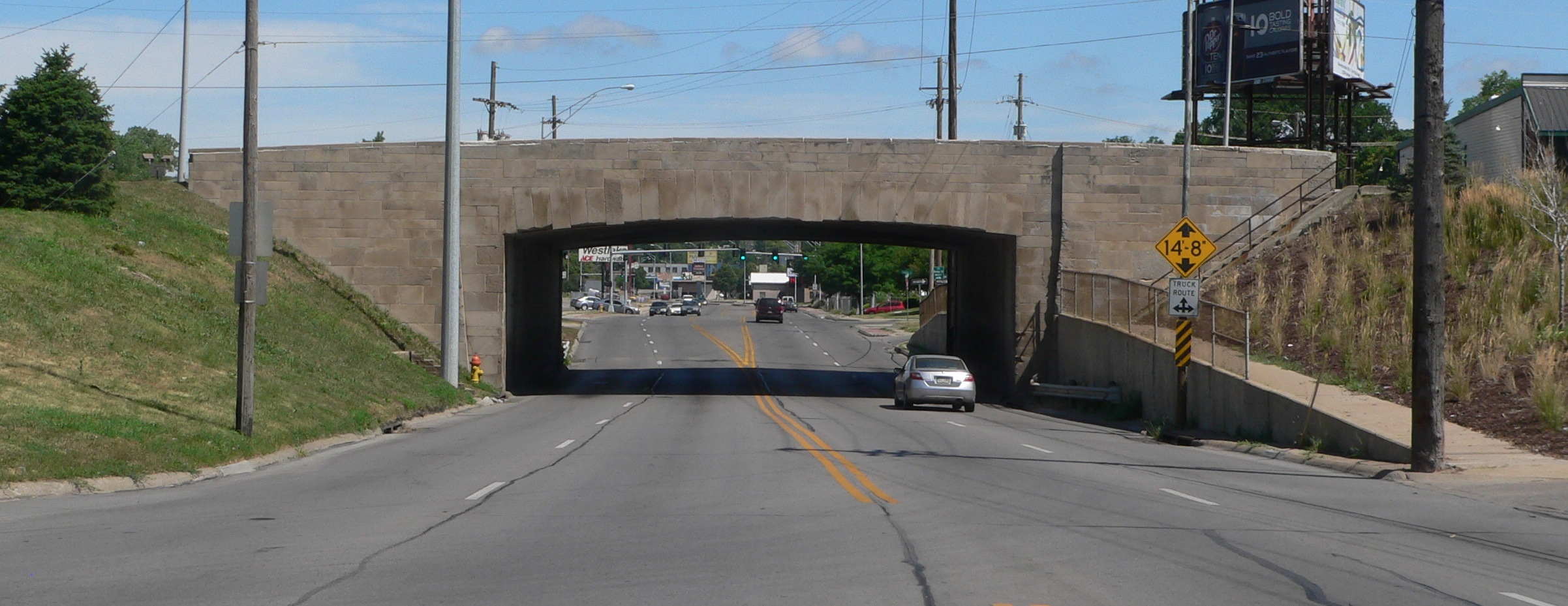 Underpass carrying Saddle Creek Road under Dodge Street in Omaha, Nebraska; seen from the south.